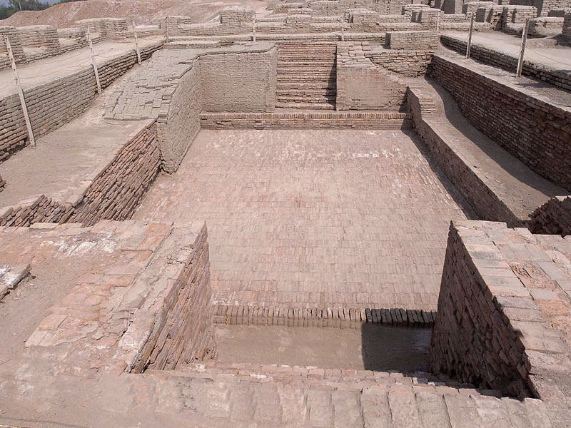 Mohenjo Daro Great Baths.